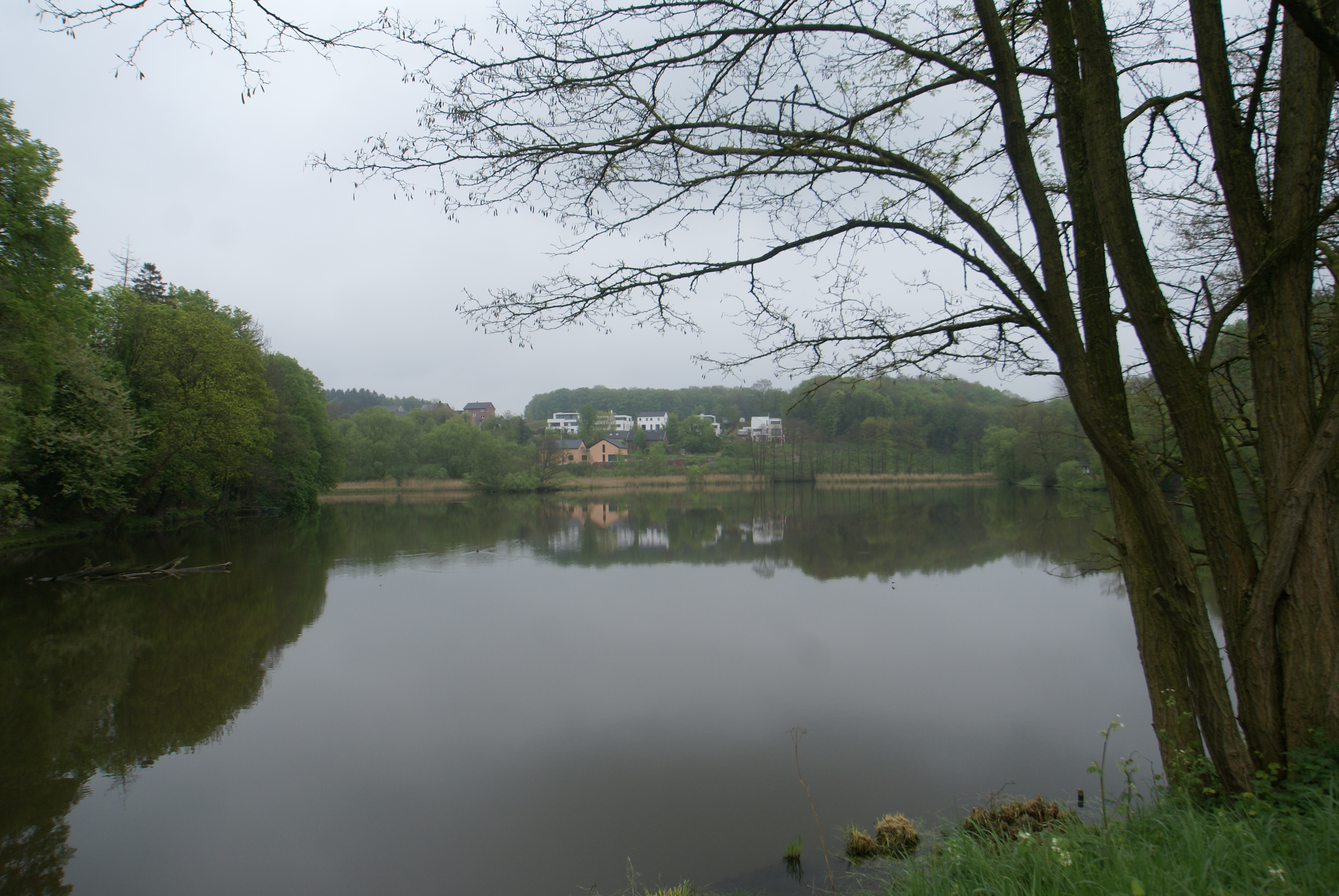 Kelmis (Belgium): Panorama of the Casinoweiher Lake